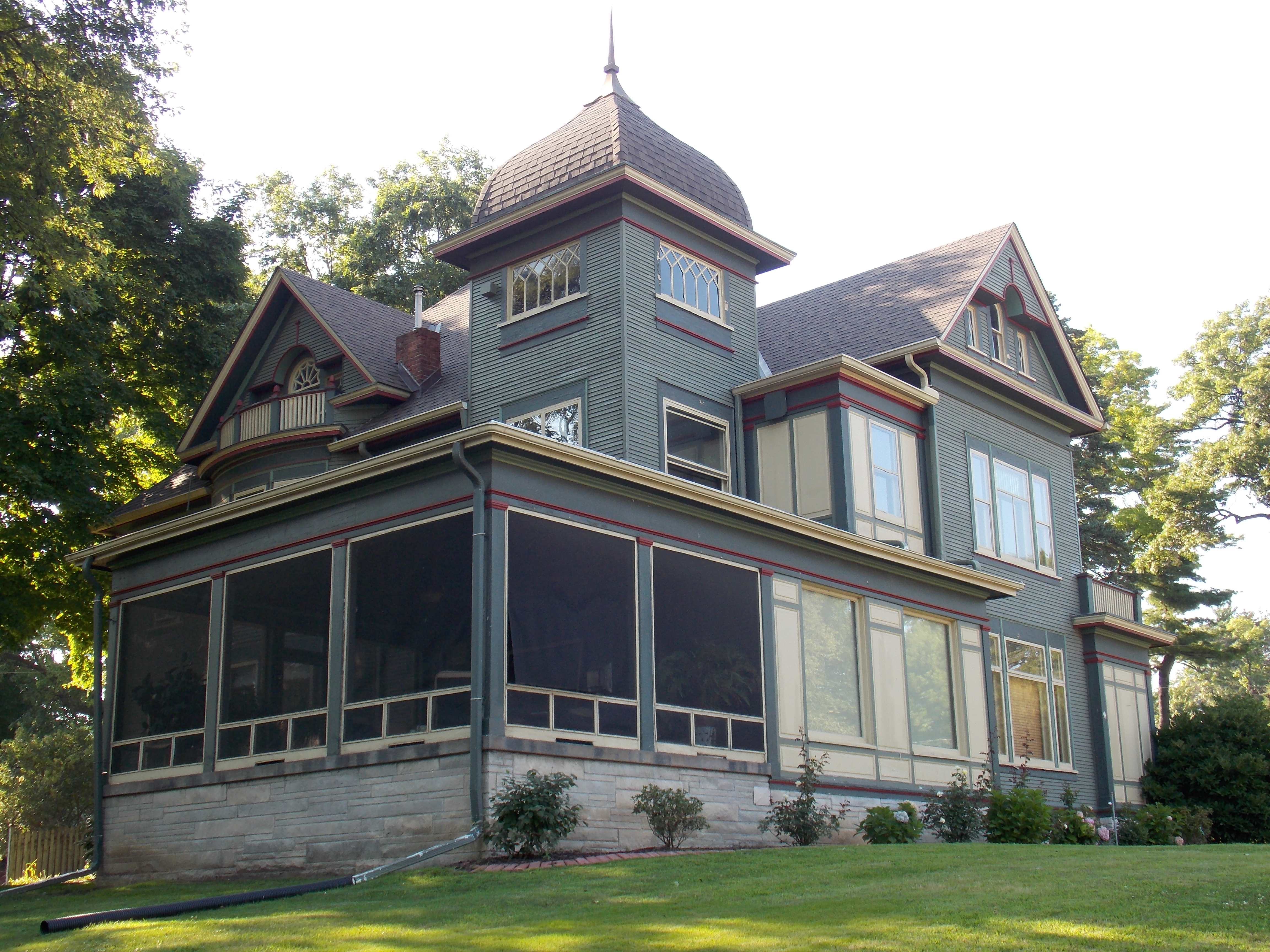 The Ralph Lindsay House is a contributing property in the Prospect Park Historic District in Davenport, Iowa.